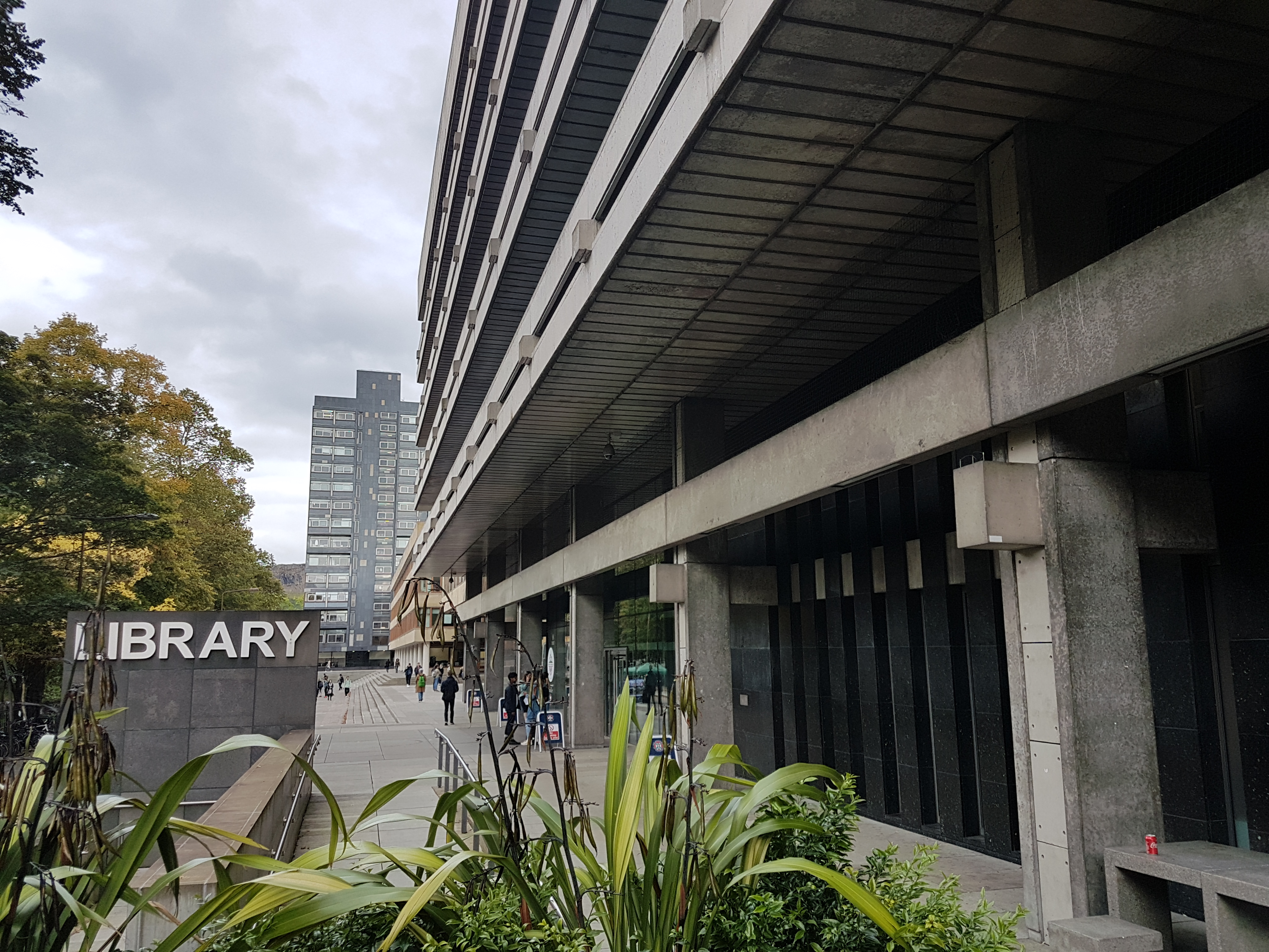 30 George Square, University Of Edinburgh, Main Library Wikidata has entry Q17570467 with data related to this item.